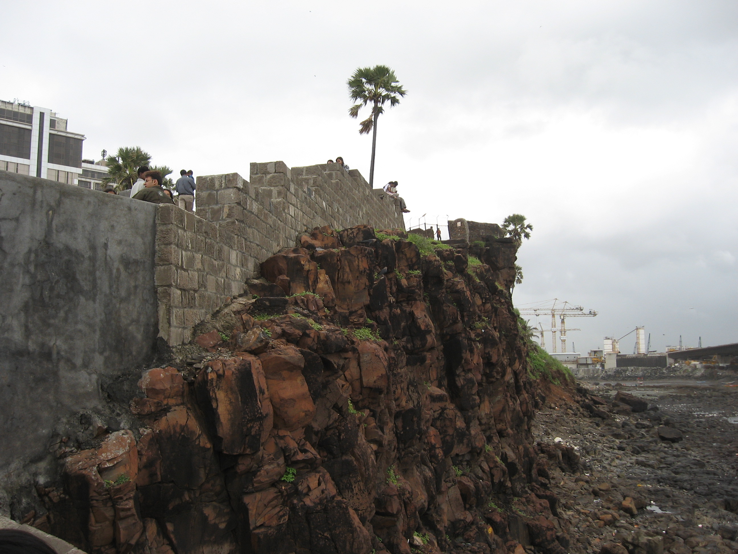 Castella de Aguada a Portuguese fort in Bandra, Mumbai, now in ruins. The fort overlooks the Mahim Bay